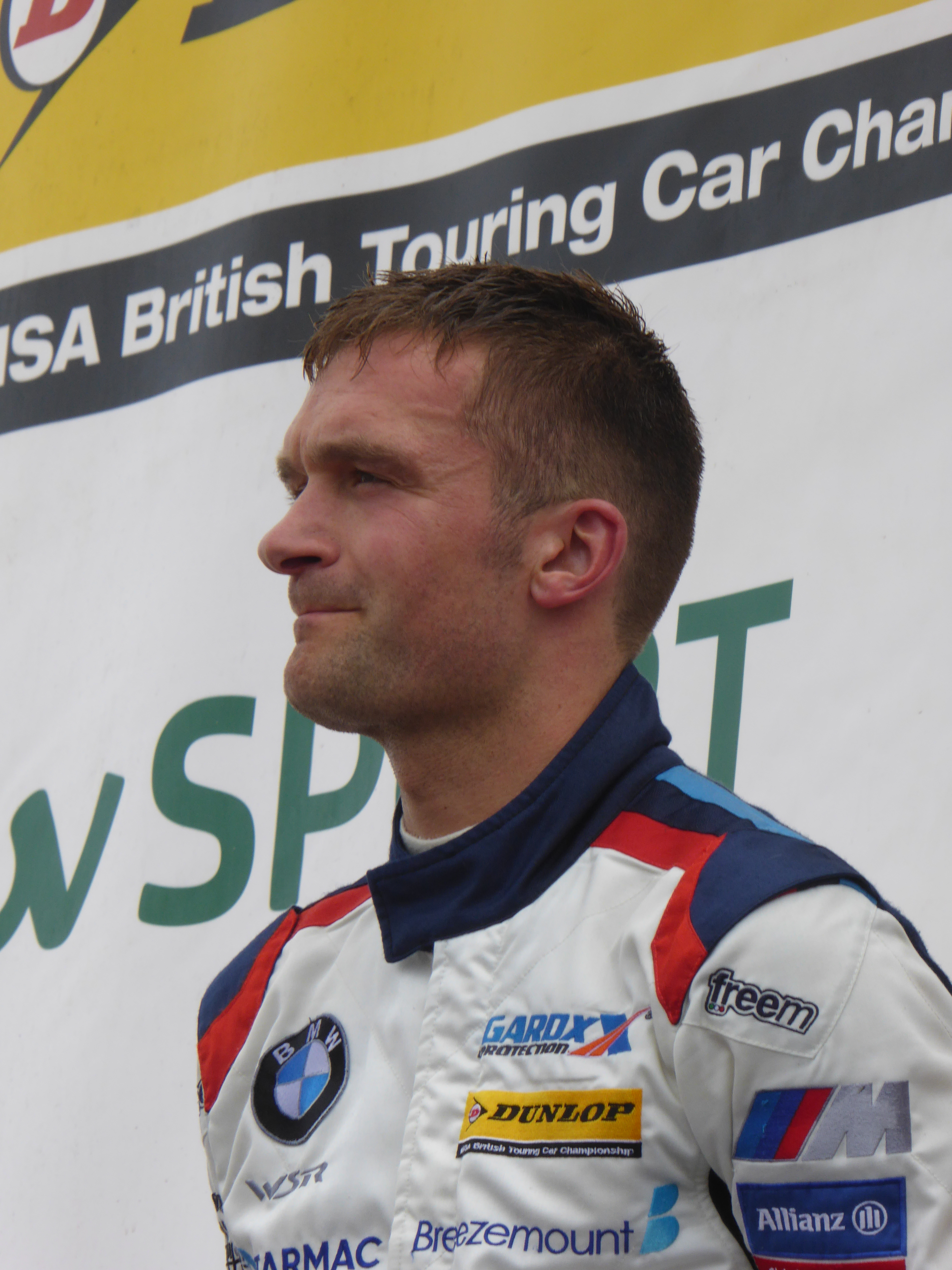 Colin Turkington (Team BMW), who finished third in Race 2, at the Knockhill round of the 2017 British Touring Car Championship.